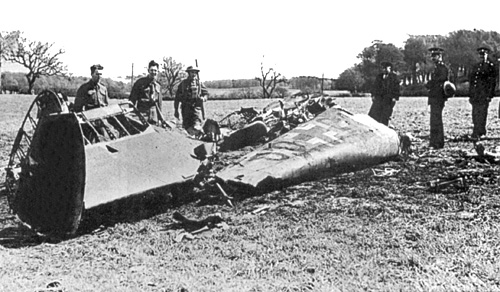 The wreckage of Rudolf Hess' Messerschmitt Bf 110D "VJ+OQ", Werk Nr 3869, after crashing at Bonnyton Moor, Scotland, on May 10th, 1941.